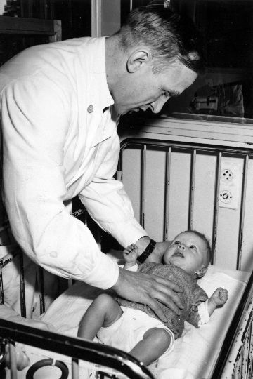 Photograph of the Finnish paediatrician Niilo Hallman (1916–2011).